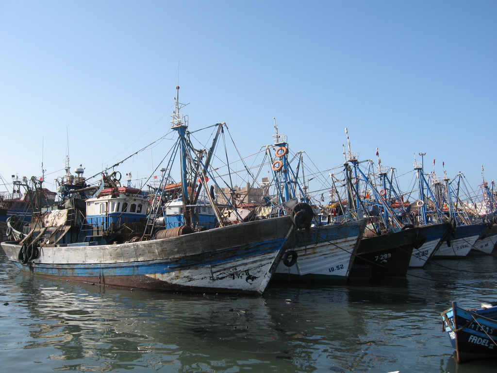 Fishing boats at Essaouira, Morocco